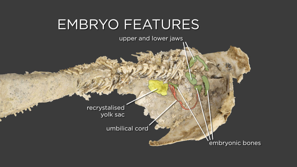 Materpiscis attenboroughi - Fossilised embyro features